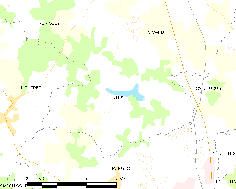 Map of French municipality